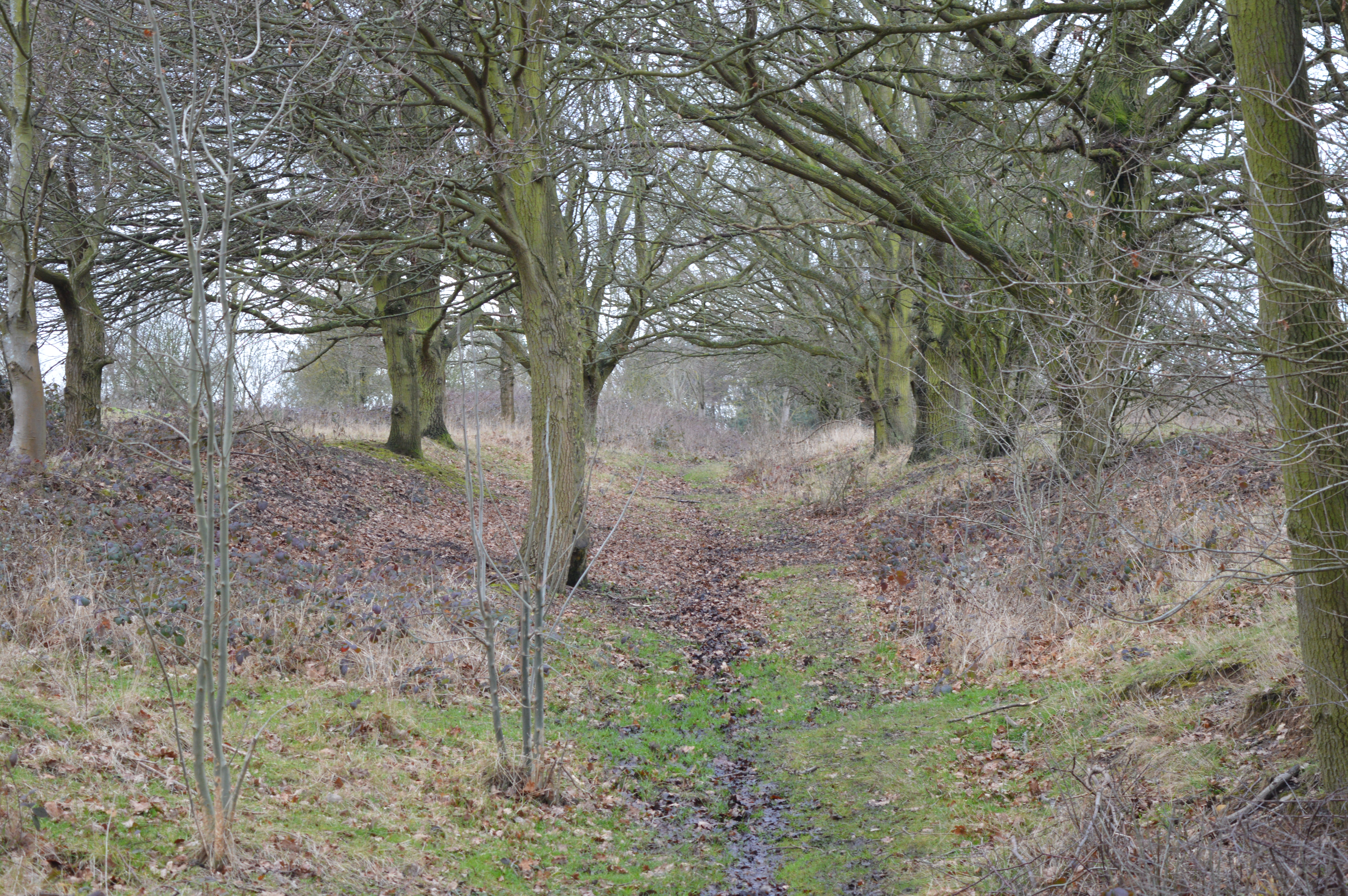 Cozens Grove, part of Top Field and Cozens Grove Local Nature Reserve in Wormley, Hertfordshire